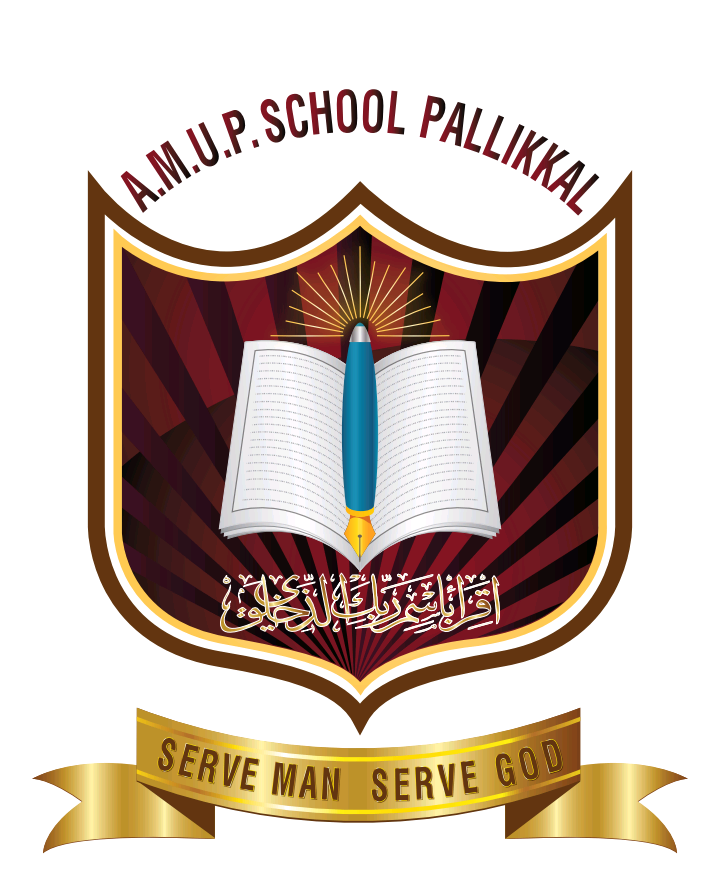 Logo of AMUPS Pallikkal